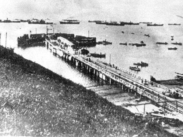 The landing of Japanese troops in Alexandrovsk in 1905